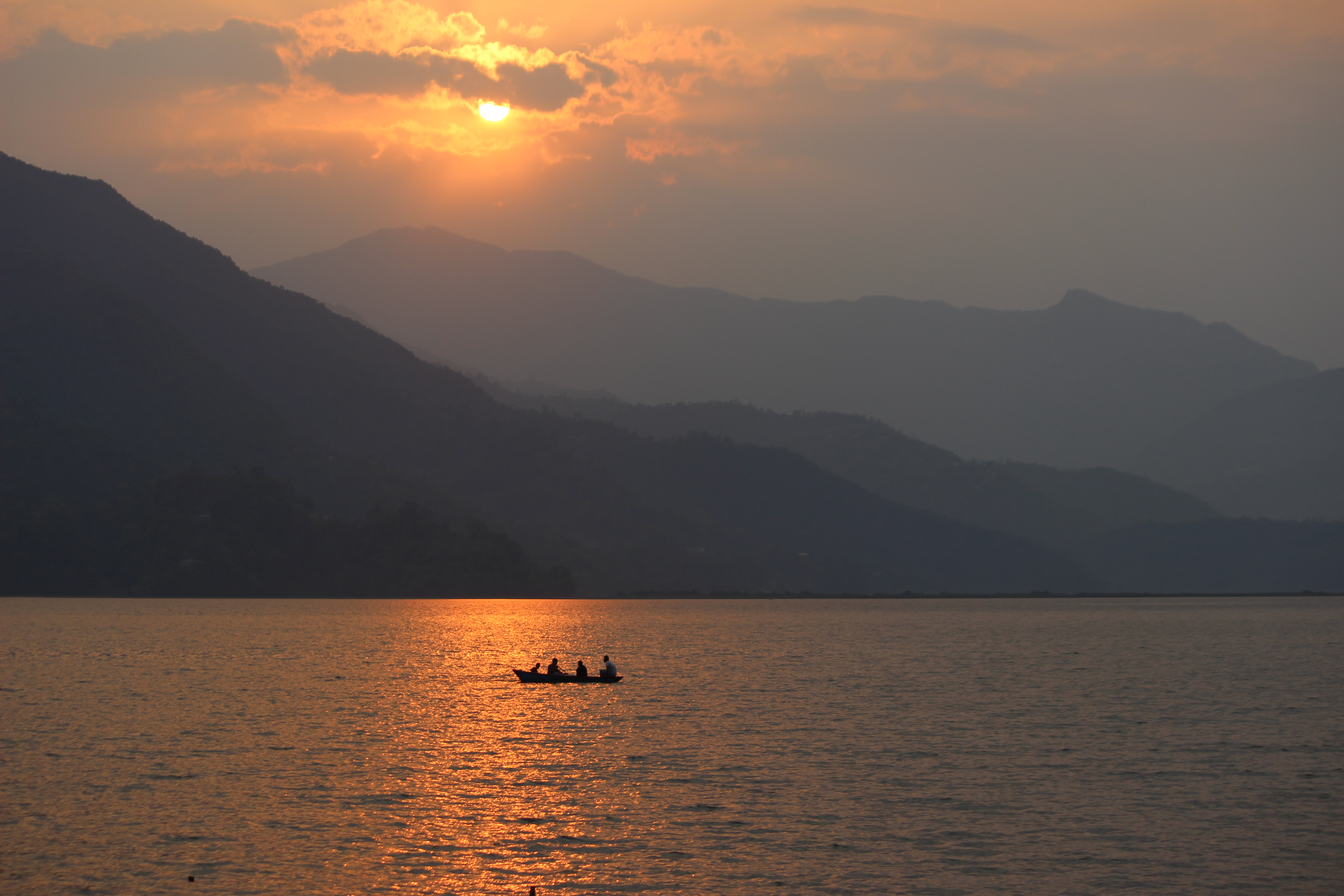 Phewa Lake, Phewa Tal or Fewa Lake is a freshwater lake in Nepal located in the south of the Pokhara Valley that includes Pokhara city; parts of Sarangkot and Kaskikot.